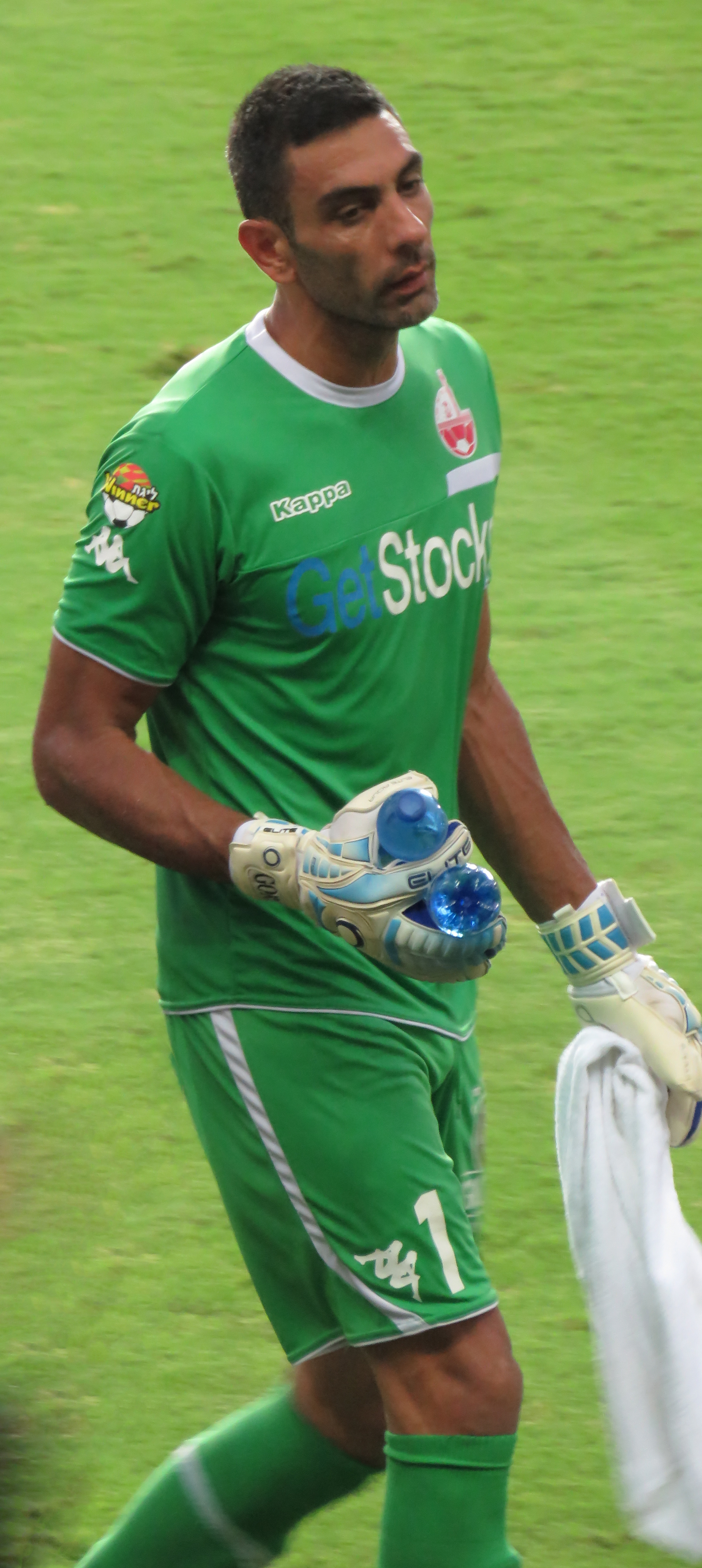 Hapoel Ra'anana vs. Hapoel Be'er Sheva - September 12, 2015